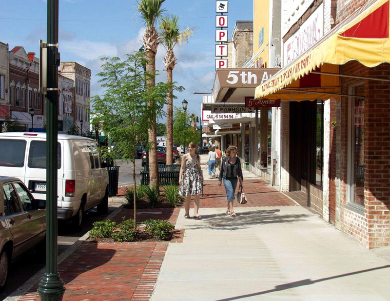 Russell Street